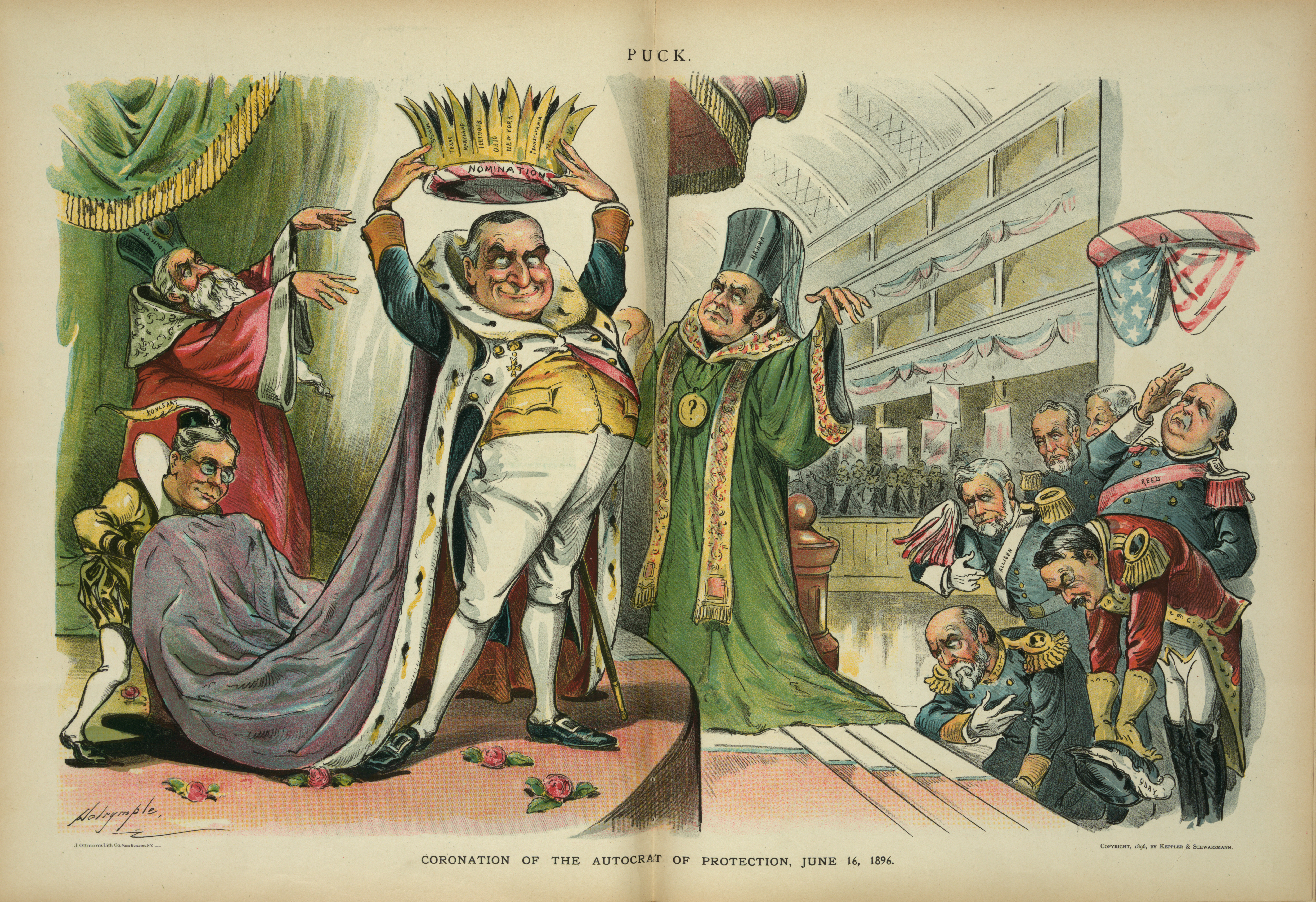 Quoted from Library of Congress description (see link above): Print shows William McKinley at the Republican National Convention, wearing a royal robe and placing a crown labeled "Nomination" and listing the states "Mass., Texas, Maryland, Illinois, Ohio, New York, Pennsylvania, Cal. [and] Va." on his head, with Charles H. Grosvenor and Mark A. Hanna as high priests, and Herman H. Kohlsaat as a court page holding the robe; paying their respects, on the right, are Thomas C. Platt, William B. Allison, Matthew S. Quay, Thomas B. Reed, Shelby M. Cullom, and Levi P. Morton. A small portion of the convention hall is visible in the background.